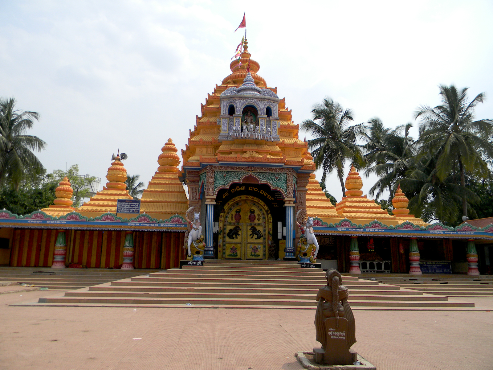 ଓଡ଼ିଆ: Maa Tarini Temple 6 This media file is uploaded with Odia loves Wikipedia English |italiano |македонски |മലയാളം |ଓଡ଼ିଆ +/−